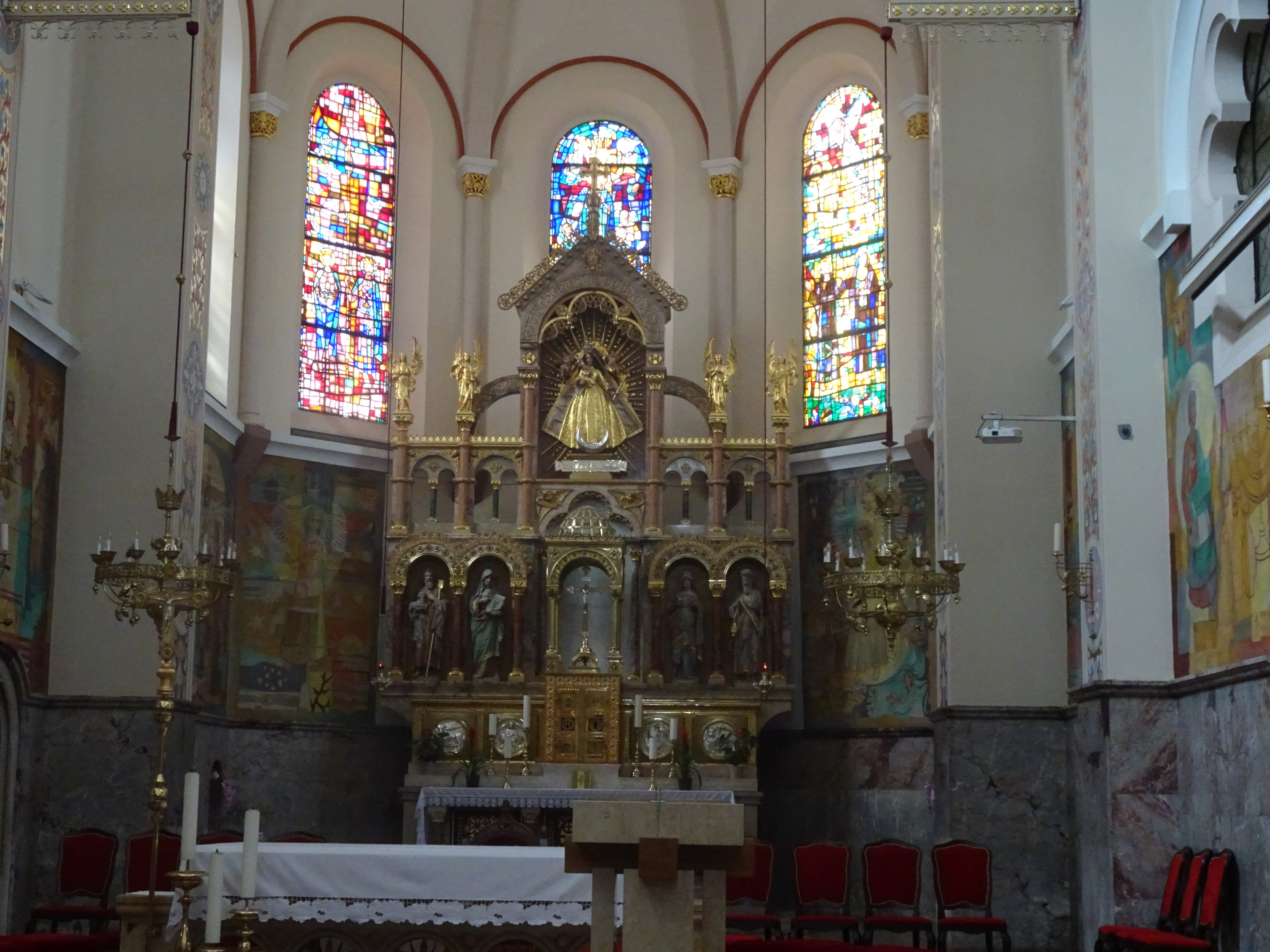 Interior of Basilica of Our Mother of Mercy, Maribor, Slovenia